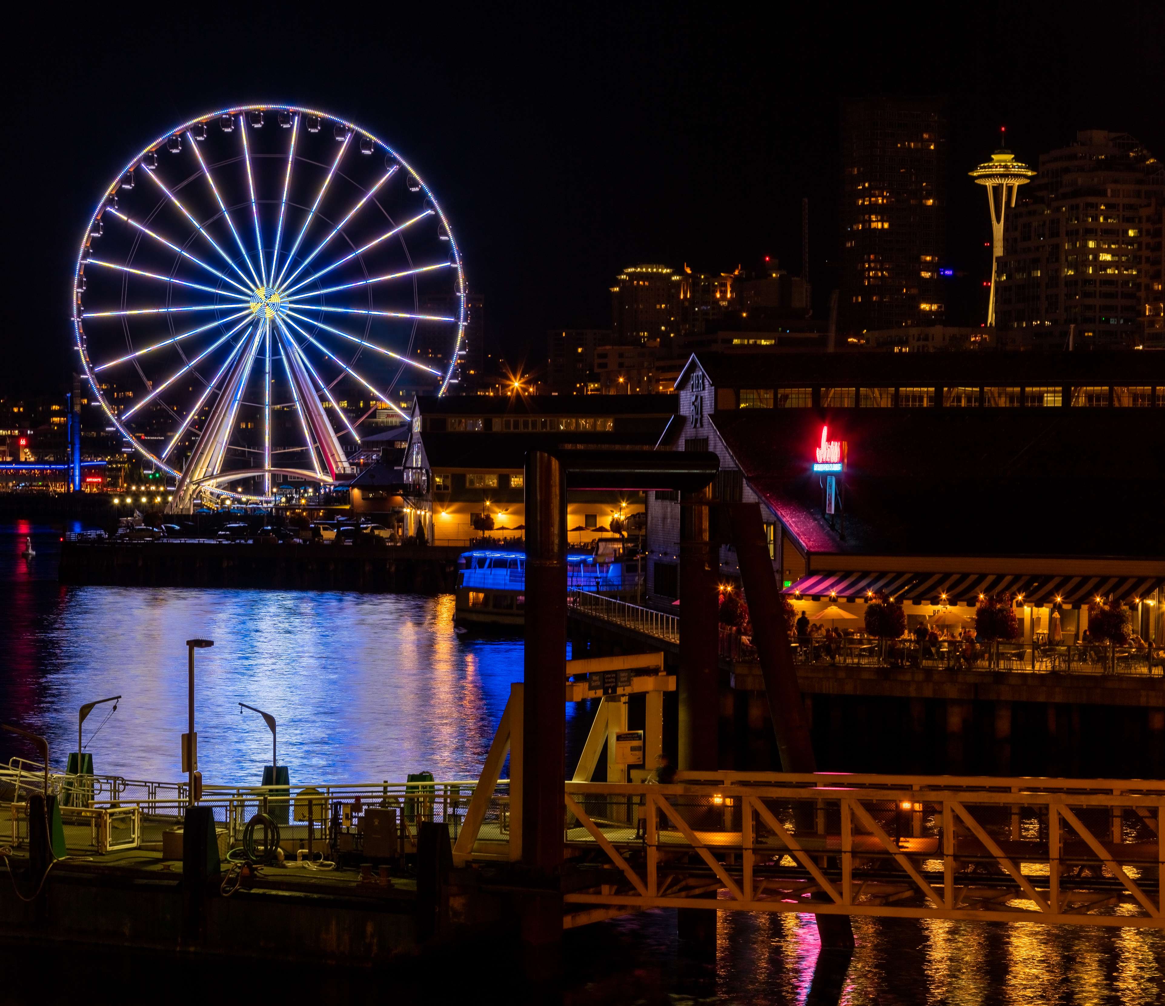 Seattle Great Wheel, Seattle, Washington, USA